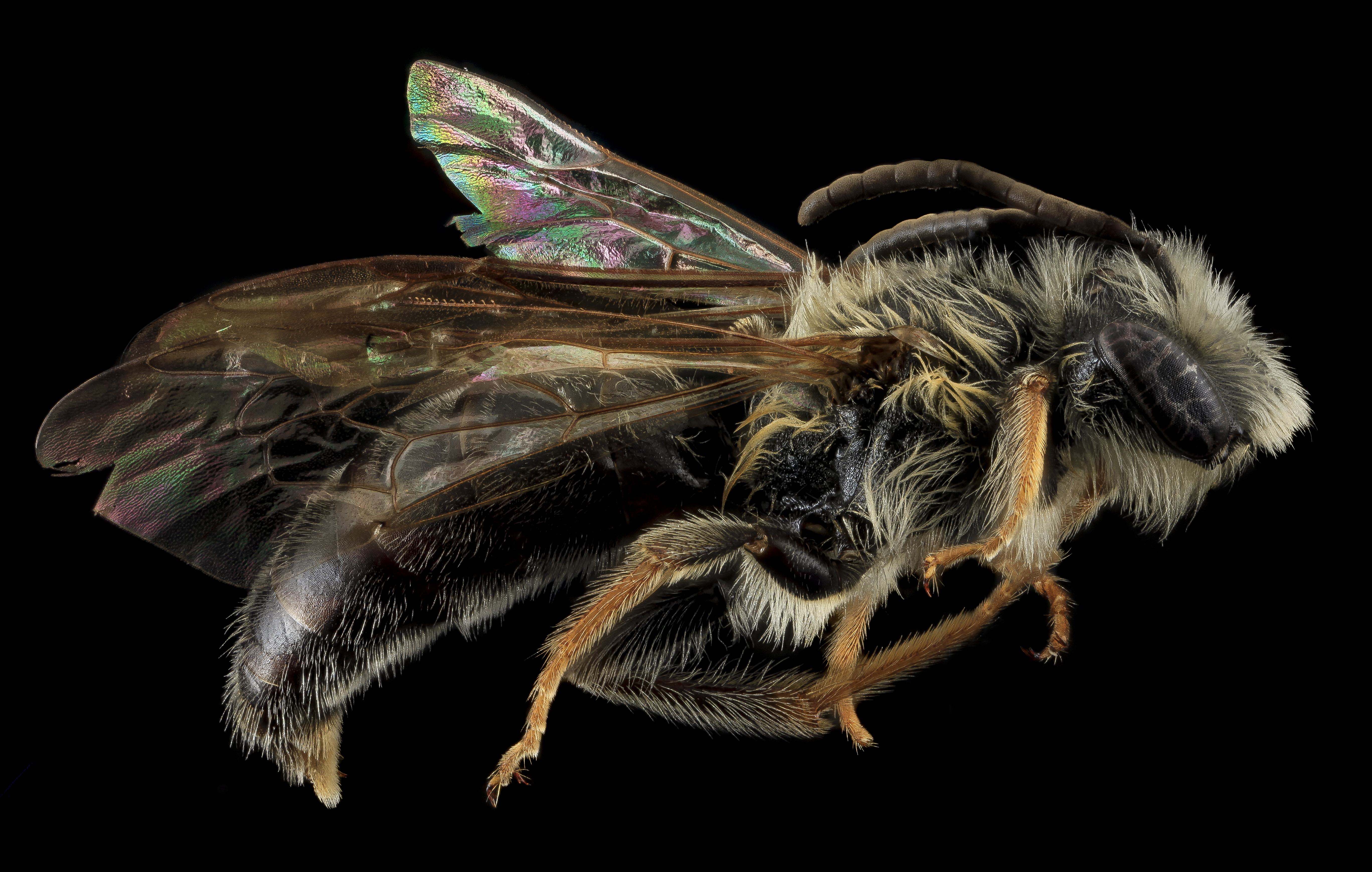 Andrena confederata - A male of this uncommon species found in Calvert County and photographed by Dejen Mengis.